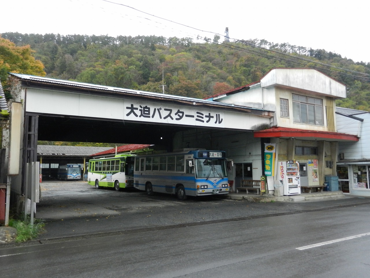 Ohasama bus terminal (Iwateken Kotsu,2012.10)